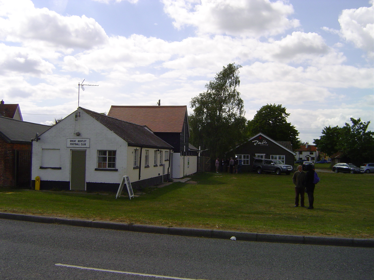 Great Bentley FC - Changing Rooms